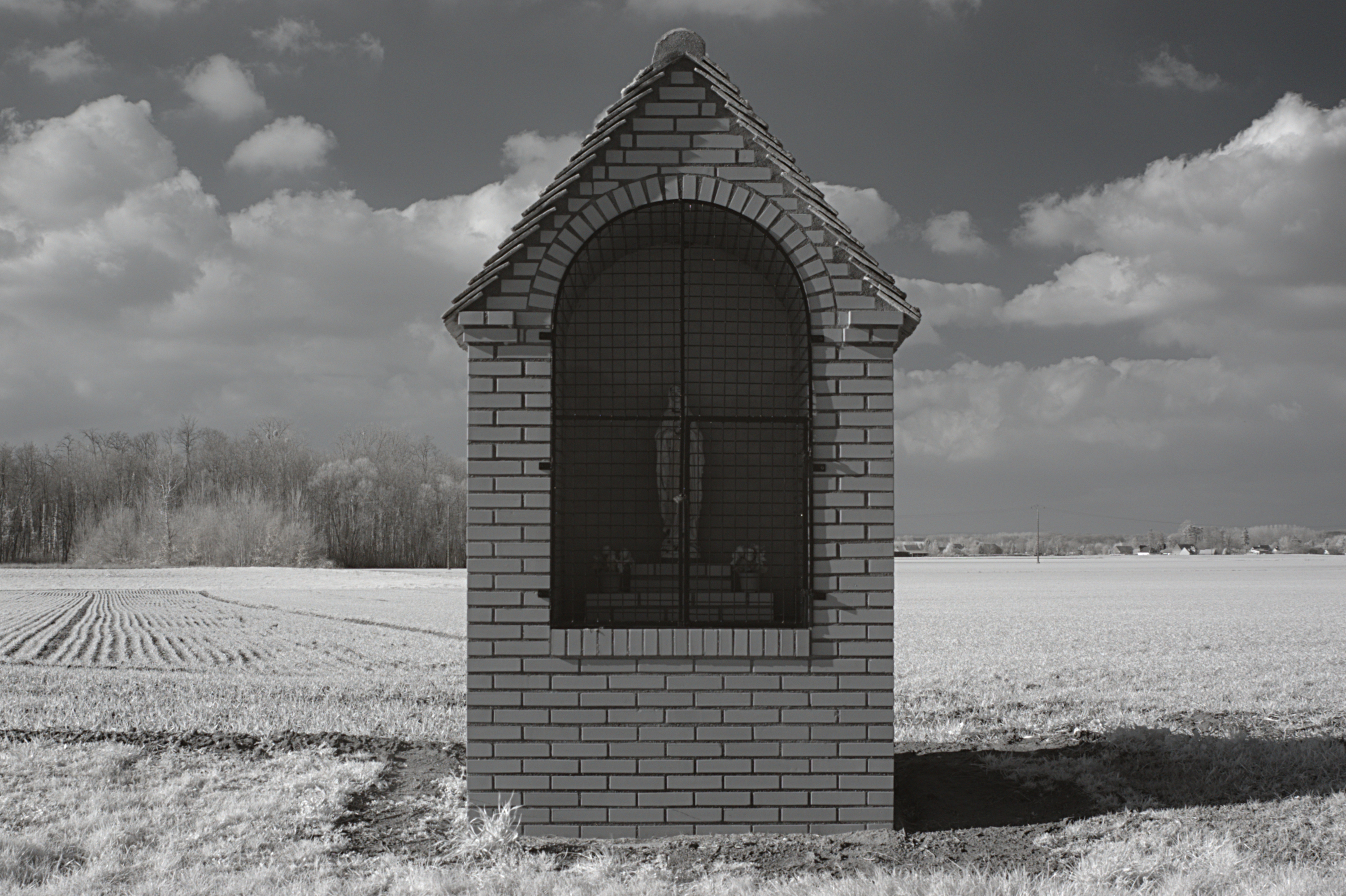 Oratory, 19th century, Labruyère (Côte d'Or, Burgundy, France) infrared photography token with a Fujifils IP PRO camera with a 760 nm filter. .